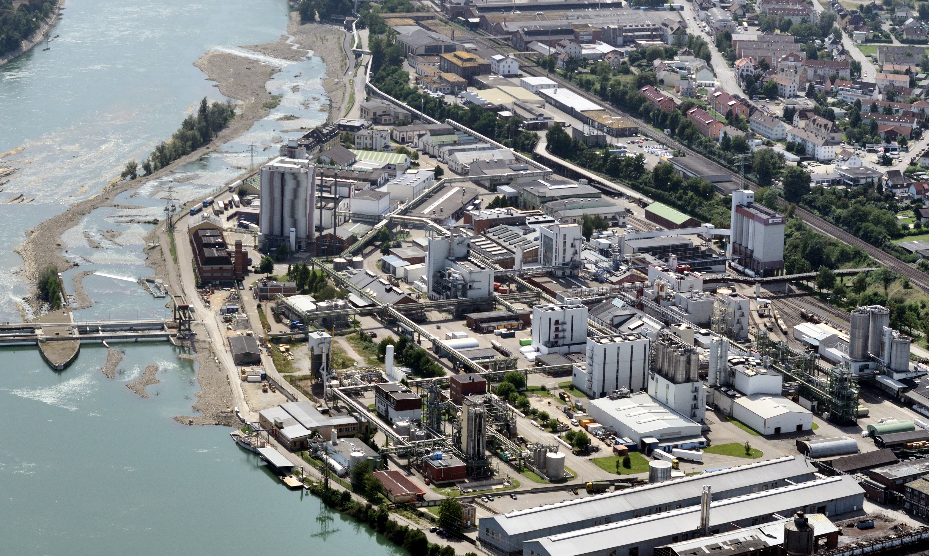 aerial view of Rheinfelden